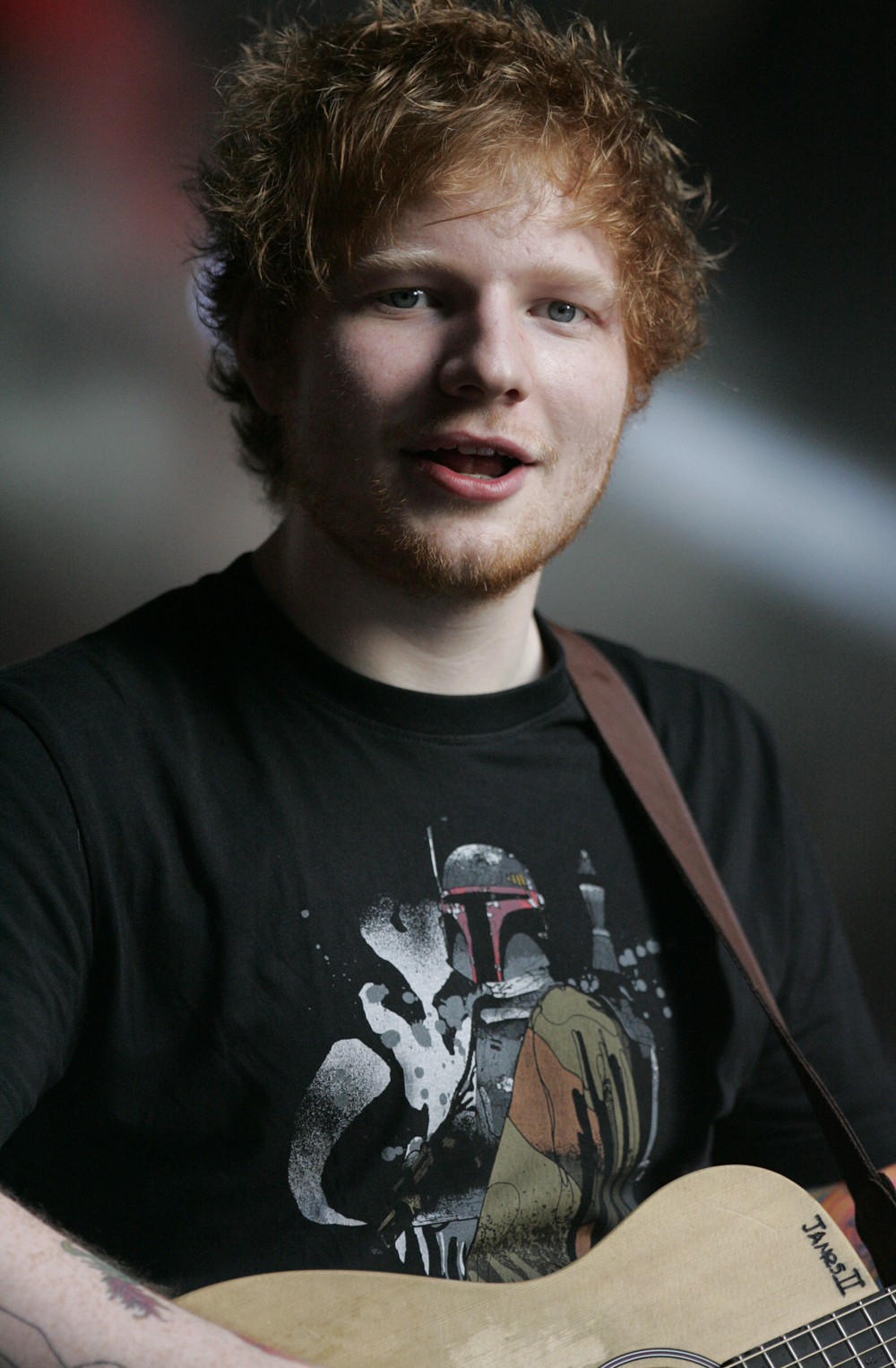 Ed Sheeran performs for Channel Seven's morning program Sunrise and Nova969 in Sydney 2013.